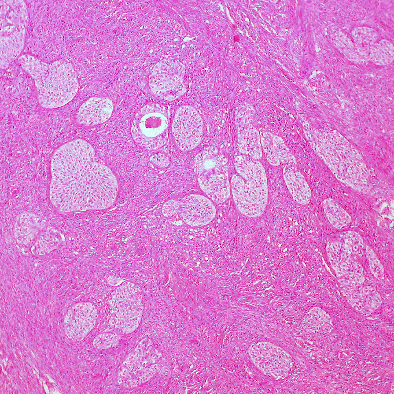 From an incisional biopsy of the ovary. Pathological and histological images courtesy of Ed Uthman at flickr.